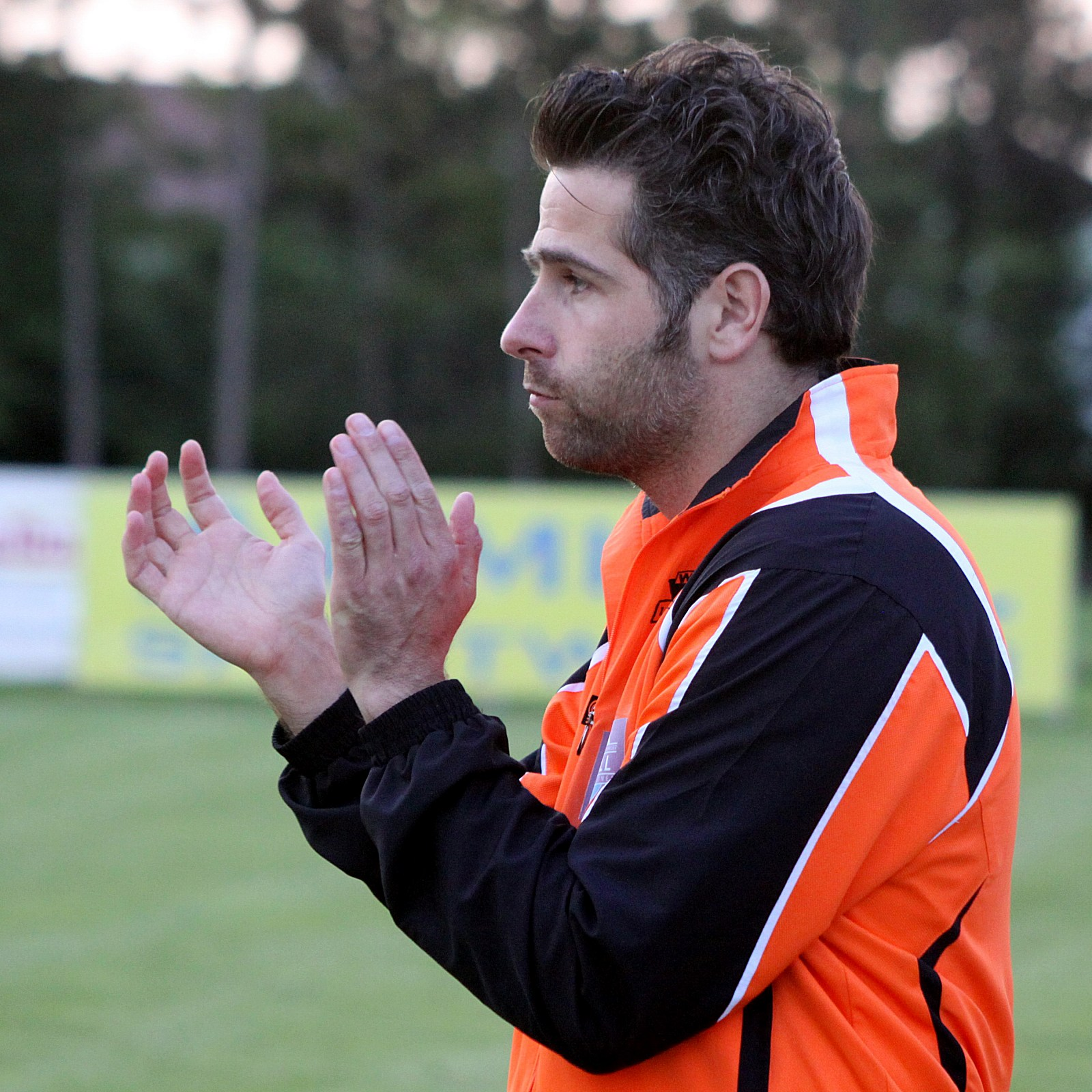 1. SC Sollenau vs. SV Horn at 2012-05-25 in Sollenau 3:1 (3:0). – The photo shows the coach of 1. SC Sollenau Thomas Eidler. Object location47° 54′ 04.4″ N, 16° 14′ 35.78″ E